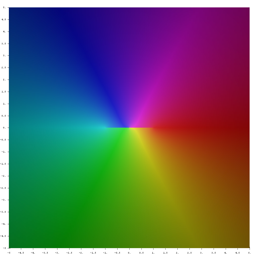 function ArcCsc[z] in the complex plane